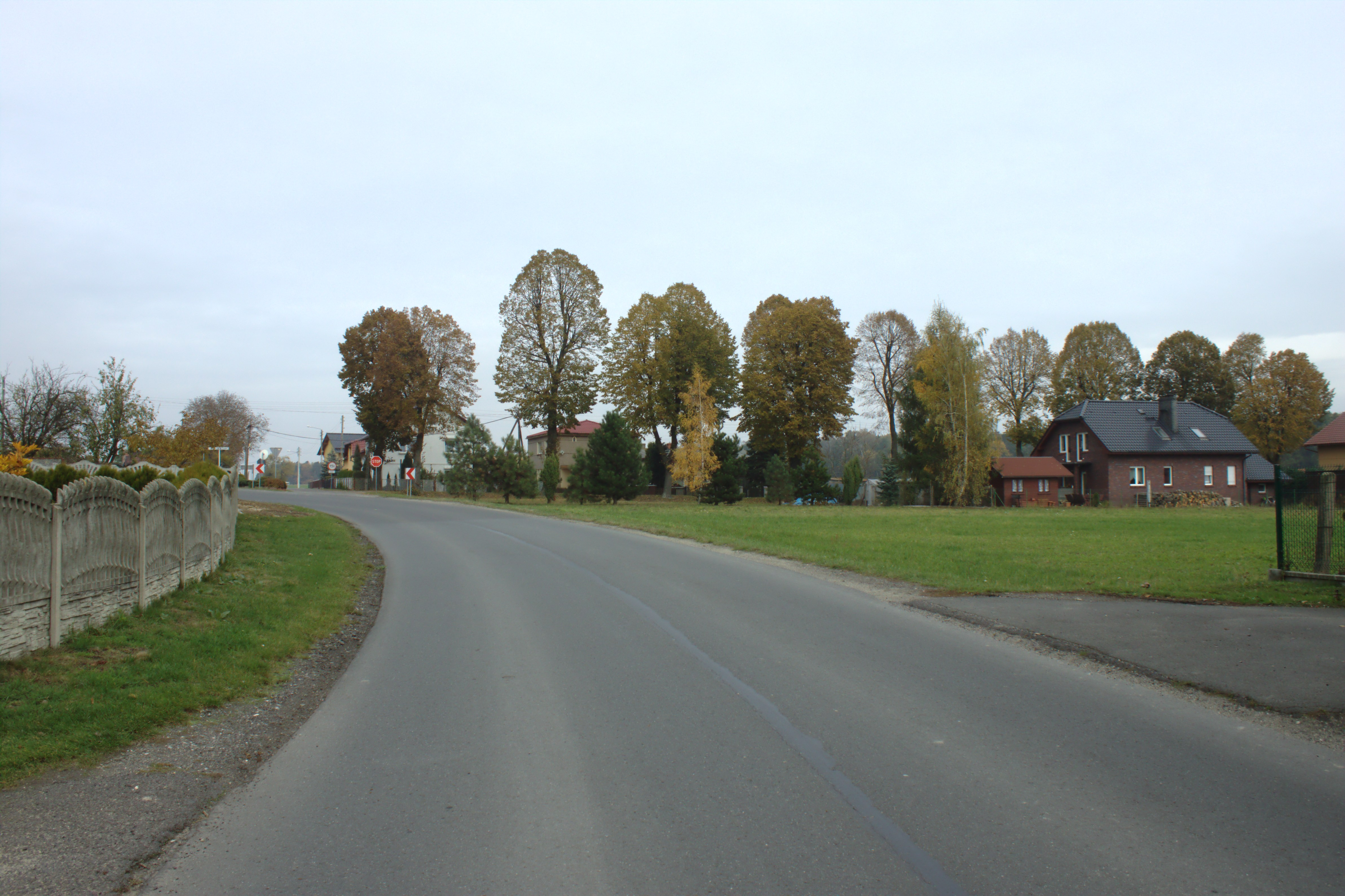 A free space in central Nogowczyce, Poland